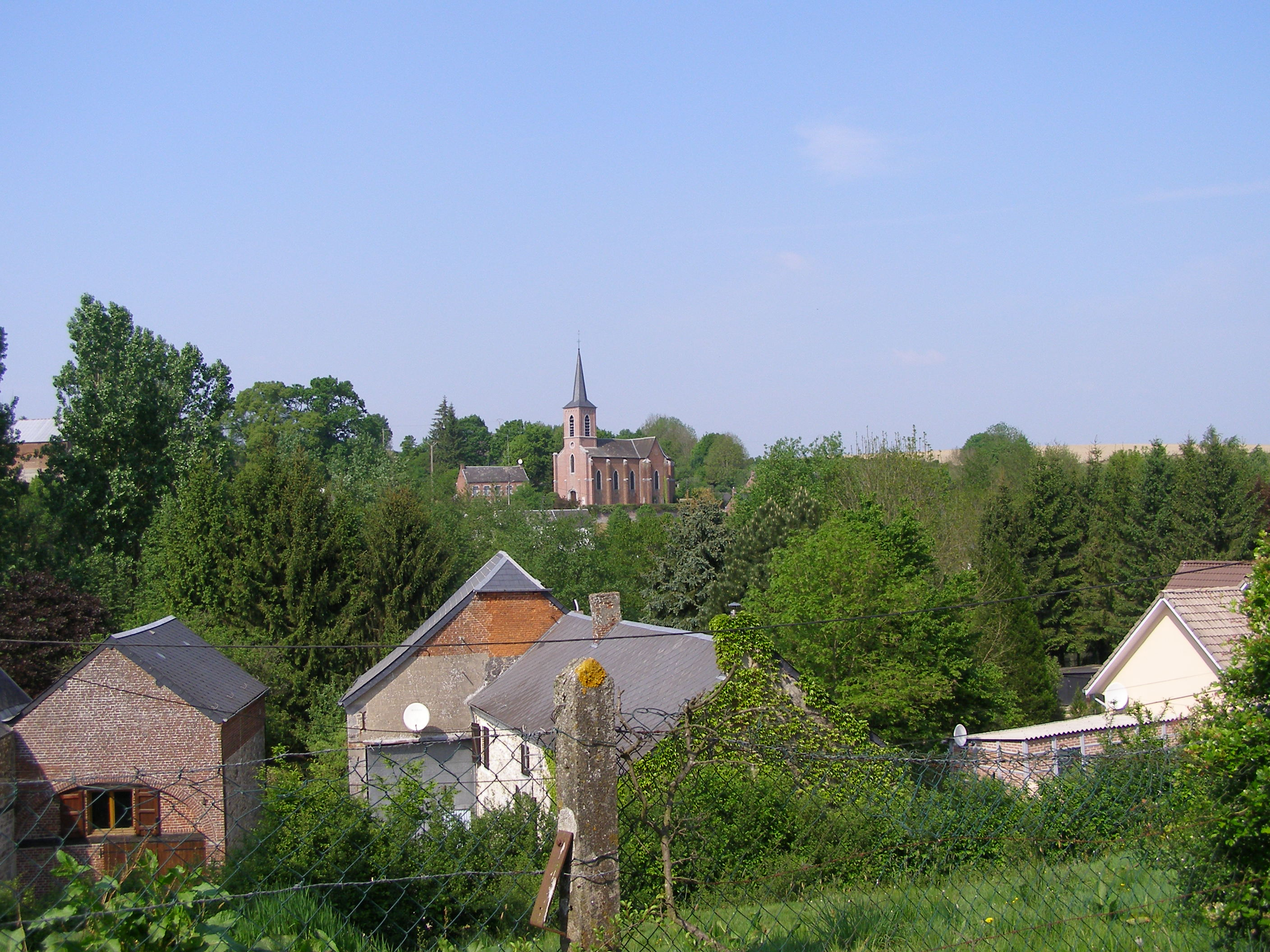 The village of Solrinnes.